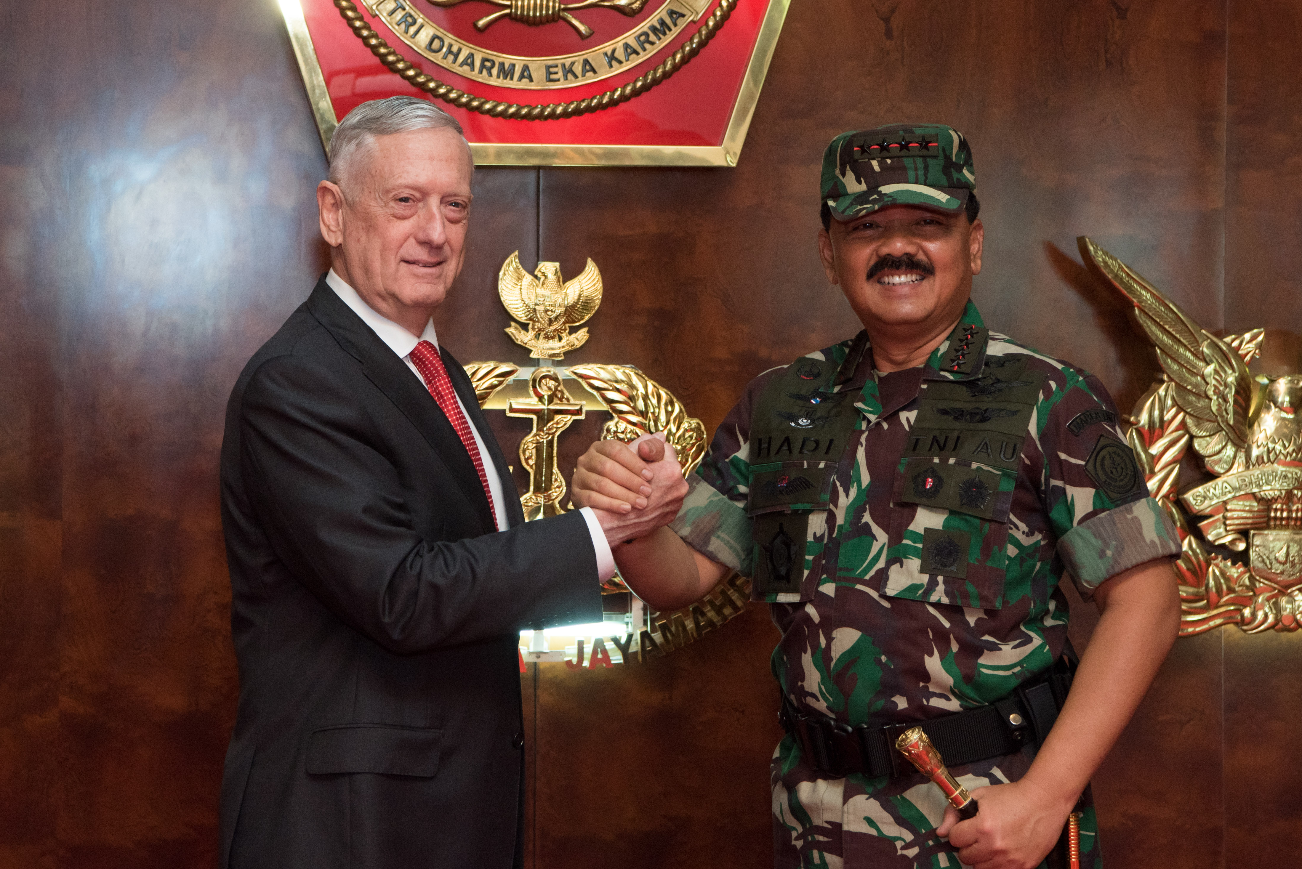 Defense Secretary James N. Mattis meets with Indonesia's Chief of Defense Marshal Hadi Tjahjanto during a visit to Jakarta, Indonesia. (180124-D-SV709-0107)